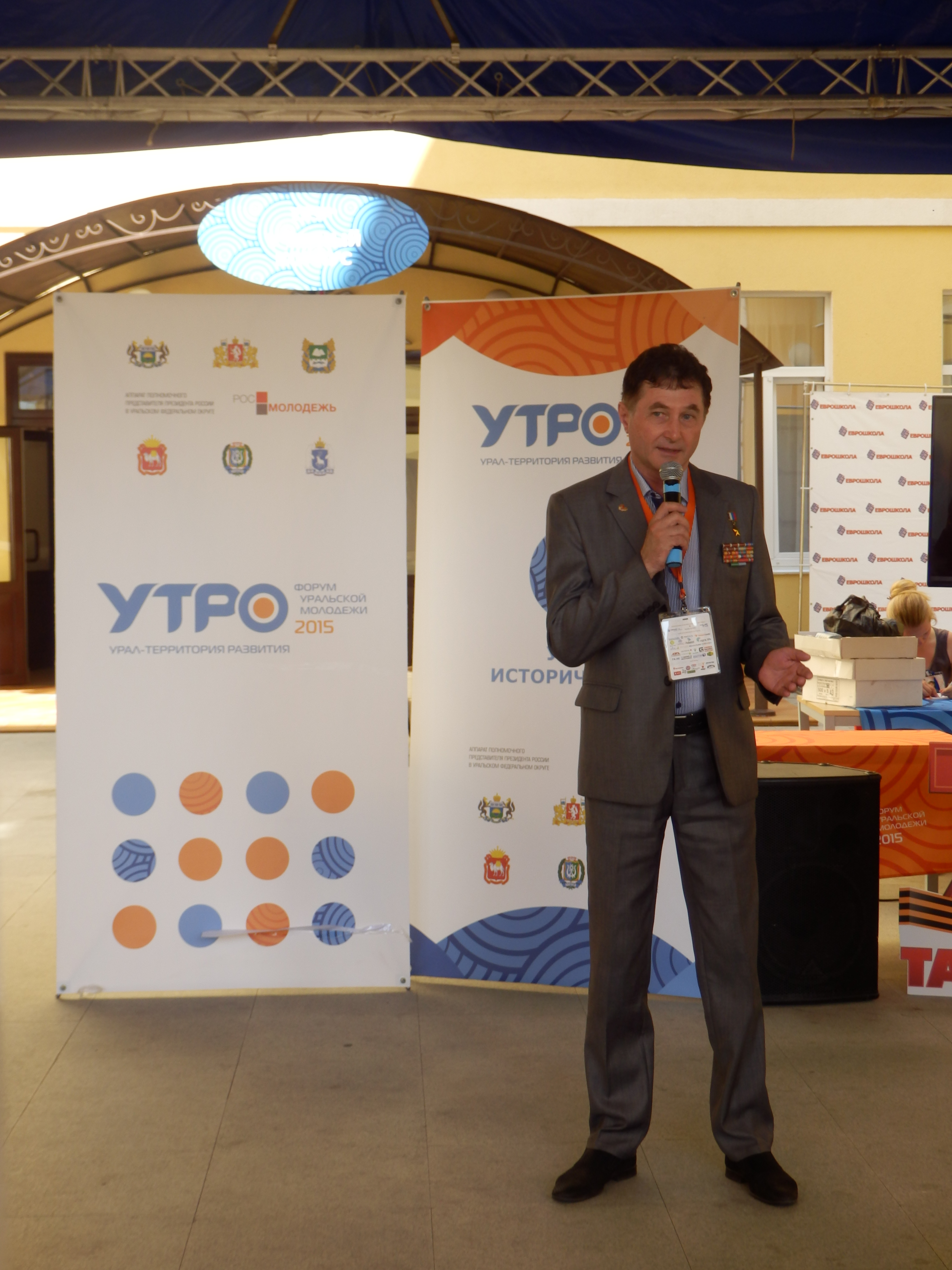 Hero of the Russian Federation Igor O. Rodobolsky at the youth forum "UTRo-2015" (Tyumen). June 24, 2015